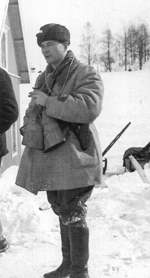 Finnish military officer Matti Aarnio also known as Motti-Matti. Aarnio finished his military career in 1945.